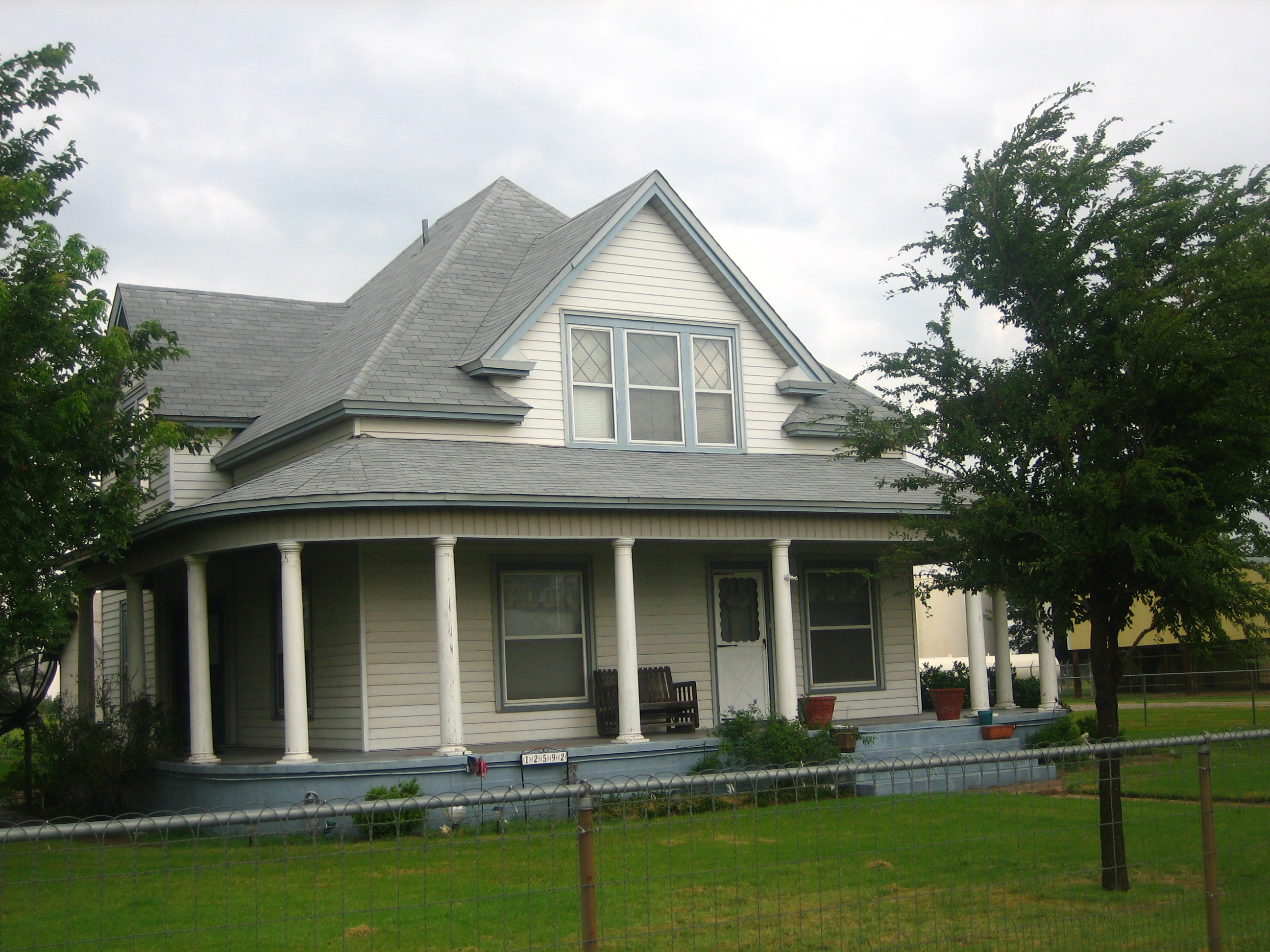 I took photo in July 2008.